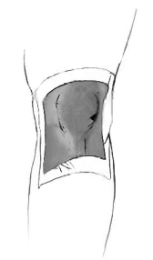 This is a simple drawing of a taped knee.